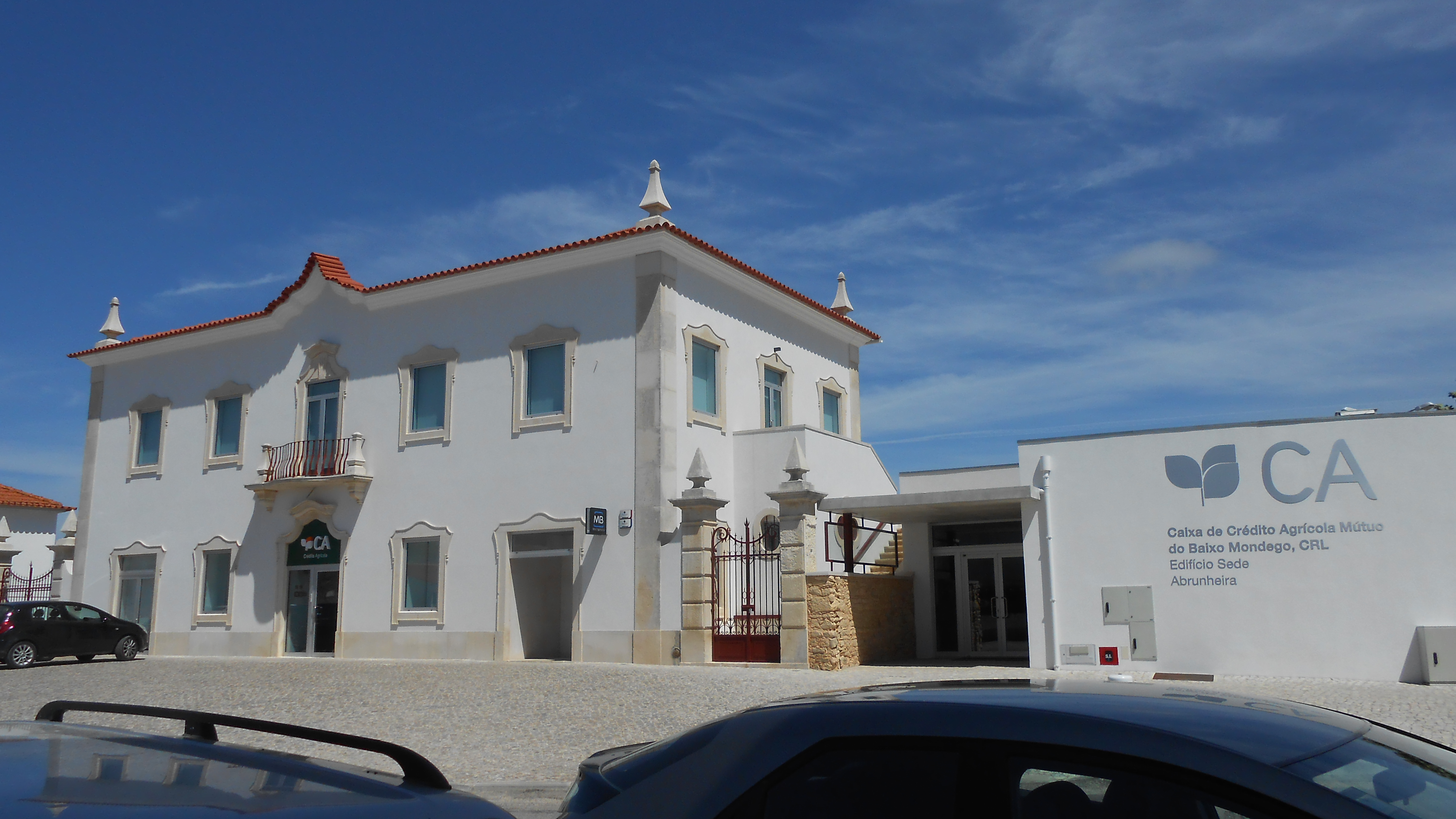 The Caixa de Crédito Agrícola facilities in Abrunheira (municipality of Montemor-o-Velho, district of Coimbra, Portugal), where the main administration of the Credit union bank Caixa de Crédito Agrícola do Baixo Mondego is located.